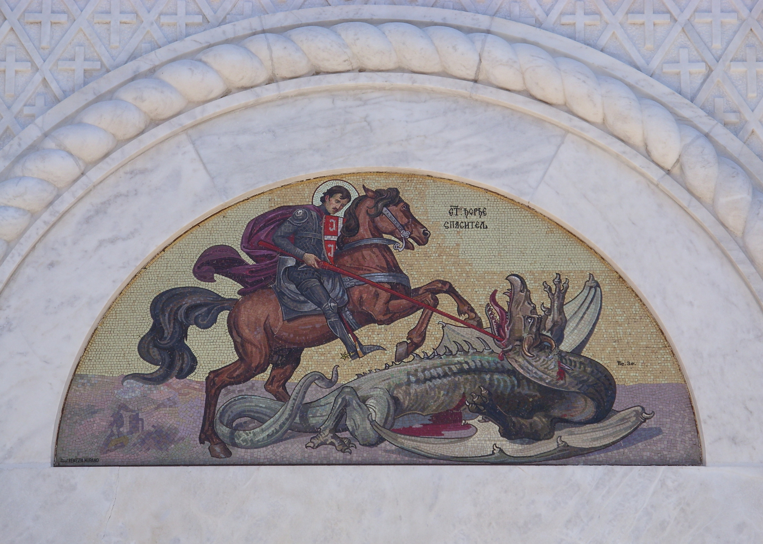 Mosaic of St. George at the entrance of St. Georges church in Oplenac (Topola, Serbia). Hornjoserbsce: Mosaik swj. Jurja nad zachodom cyrkeje swj. Jurja w Oplenacu (Topola, Serbiska).